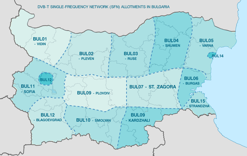 DVB-T single-frequency network (SFN) Allotments in Bulgaria: BUL01 - Vidin BUL02 - Pleven BUL03 - Ruse BUL04 - Shumen BUL05 - Varna BUL06 - Burgas BUL07 - Stara Zagora BUL08 - Kardzhali BUL09 - Plovdiv BUL10 - Smolyan BUL11 - Sofia BUL12 - Sofia-grad BUL13 - Blagoevgrad BUL14 - Varna-grad BUL15 - Strandzha